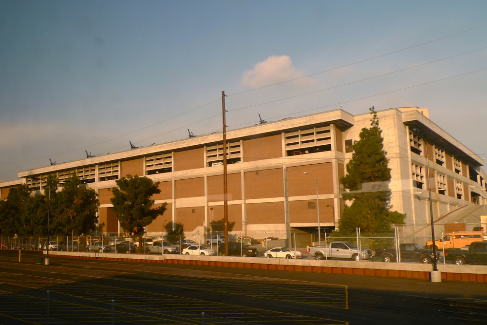 The LAPD Hooper Heliport on top of the Piper Technical Center, in downtown Los Angeles.